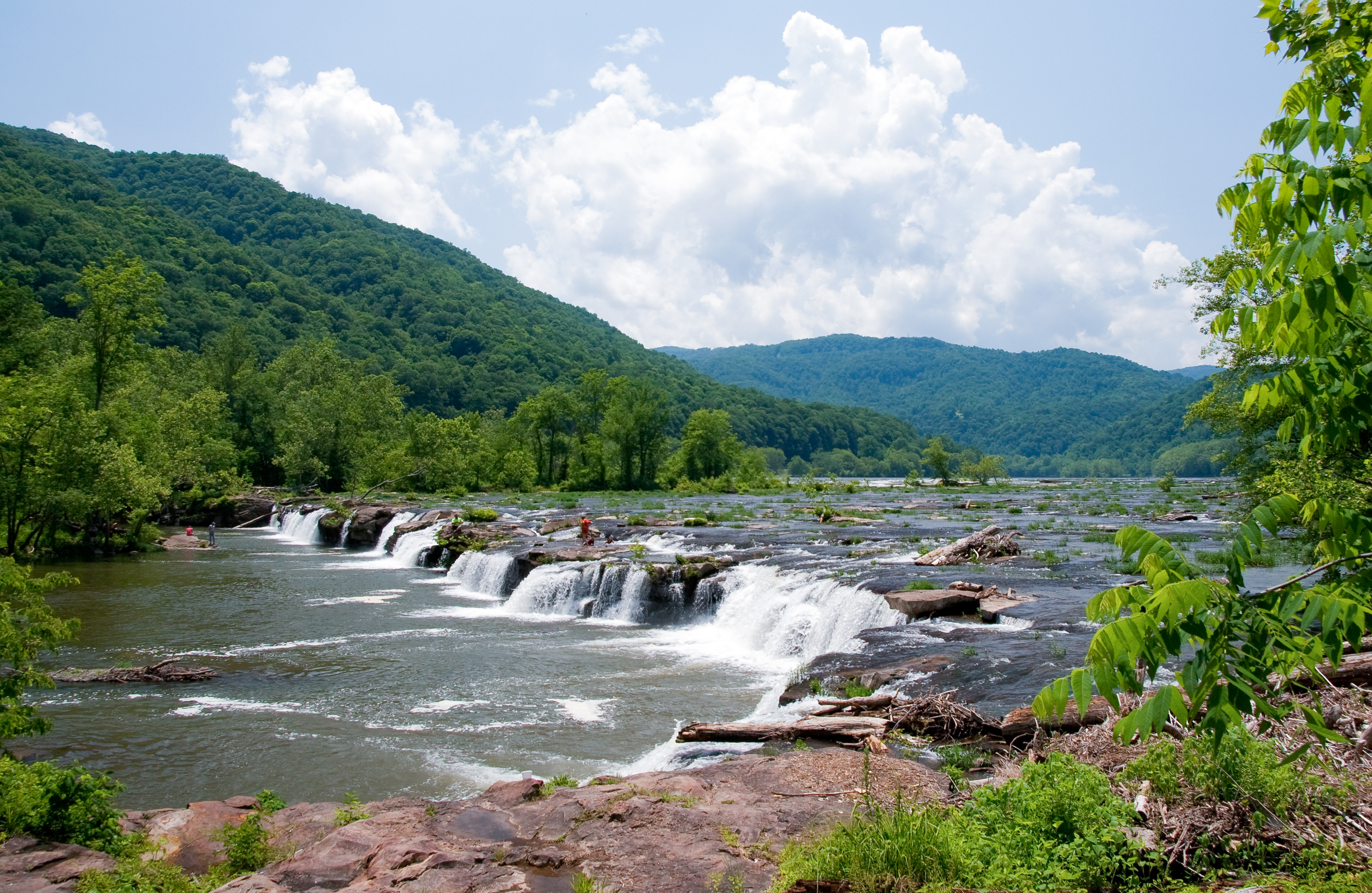 It was a picture perfect day on the New River in WV. Fishermen and waders enjoy the Lower Falls.